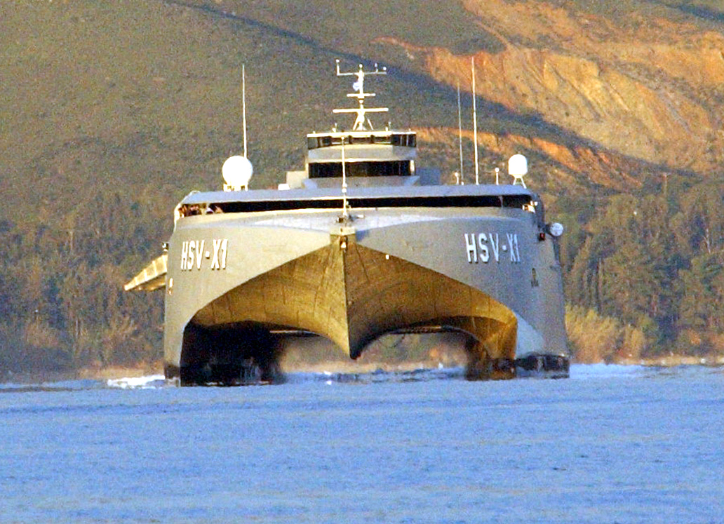 020403-N-0780F-001 Souda Bay, Crete (Apr. 3, 2002) -- The Multi-service high speed vessel, Joint Venture (HSV-X1) pulls into the port of Souda Bay, Crete. The 313 foot-long experimental craft is a wave-piercing catamaran capable of 45 knots and is currently being operated by joint U.S. Army and U.S. Navy personnel. Joint Venture’s naval employment includes replenishment and resupply at sea, special operations insertion and redeployment, reconnaissance, command and control, anti-submarine warfare, mine warfare, humanitarian assistance/evacuation, surface warfare and force protection. U.S. Navy photo by Paul Farley. (RELEASED)